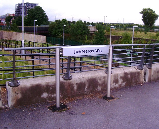 Joe Mercer Way Pathway dedicated to the late, great Joe Mercer.